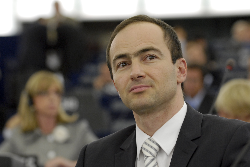 EP - Strasbourg - Andrey Kovatchev